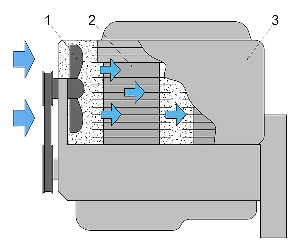 Engine air cooling system diagram